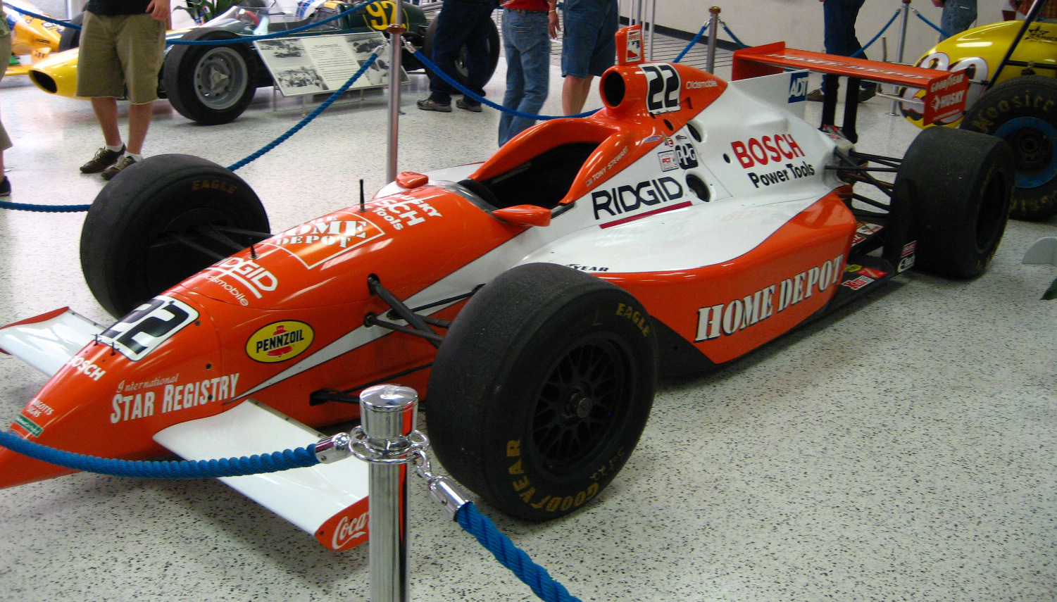 Tony Stewart's 1999 Indianapolis 500 entry on display